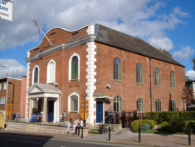 George's Meeting House, South Street, Exeter, Devon, seen from the south. A Wetherspoon pub in the building of a former non-conformist chapel. This view shows the round-headed Neoclassical side windows, the hipped roof behind the parapet and the beer garden on the right.